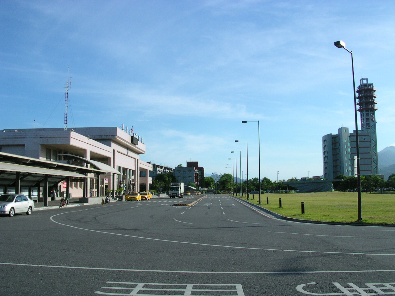 this photo taken by vegafish